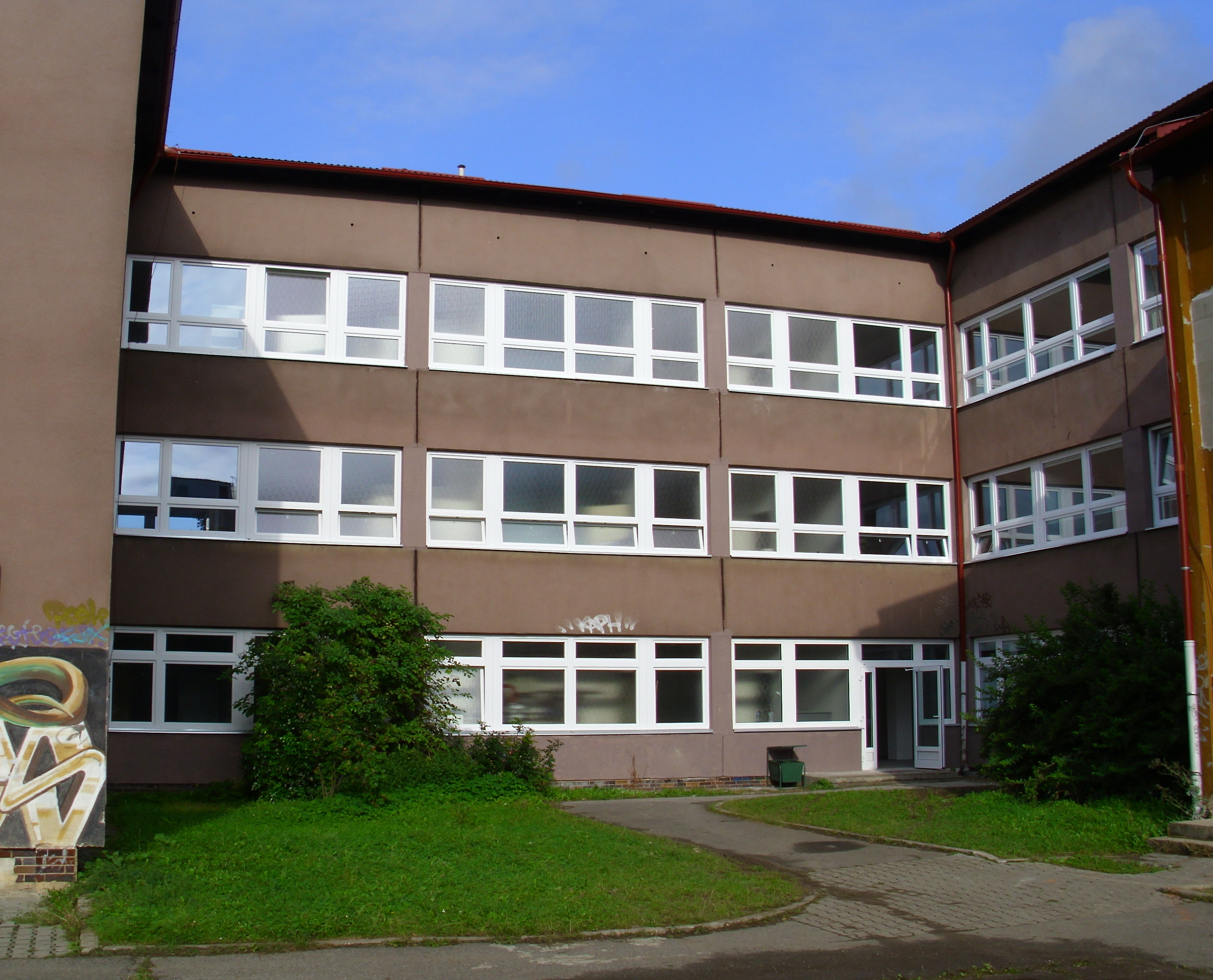 Gymnasium (high school) for gifted children, founded in 1993 by Mensa Czech Republic and from 2010 located in Prague – Řepy in this building